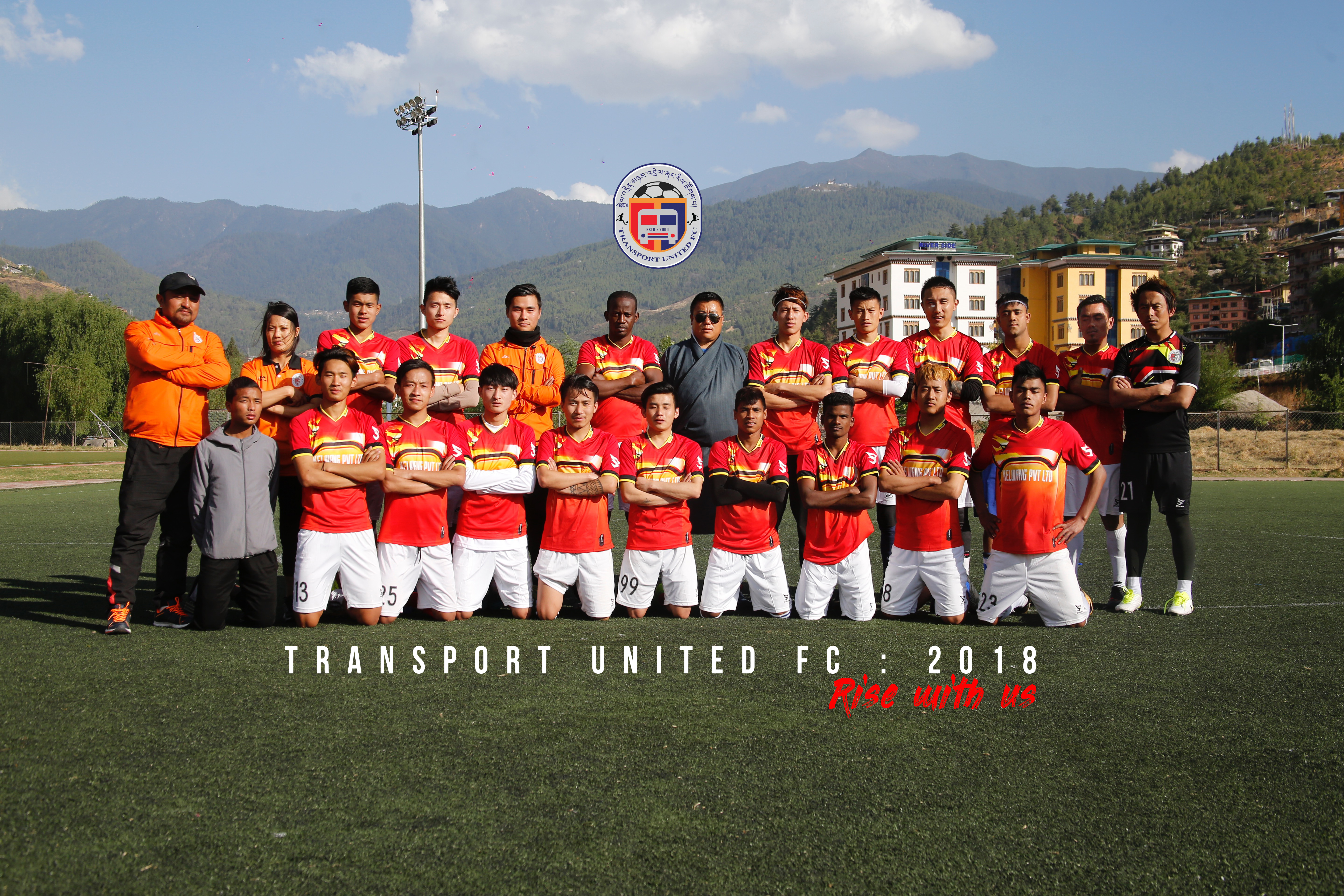 2018 Bhutan A-League